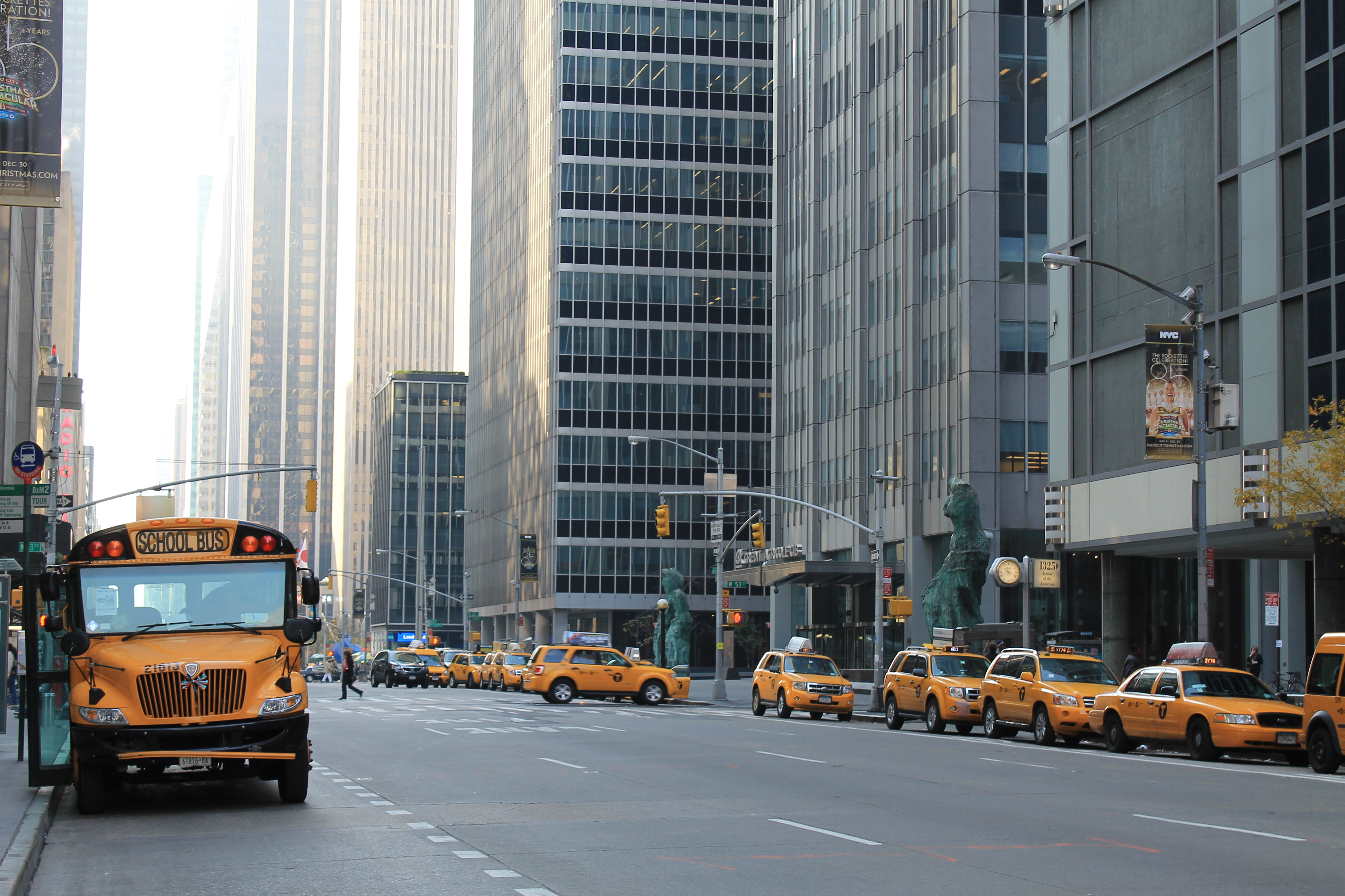 Sixth Avenue